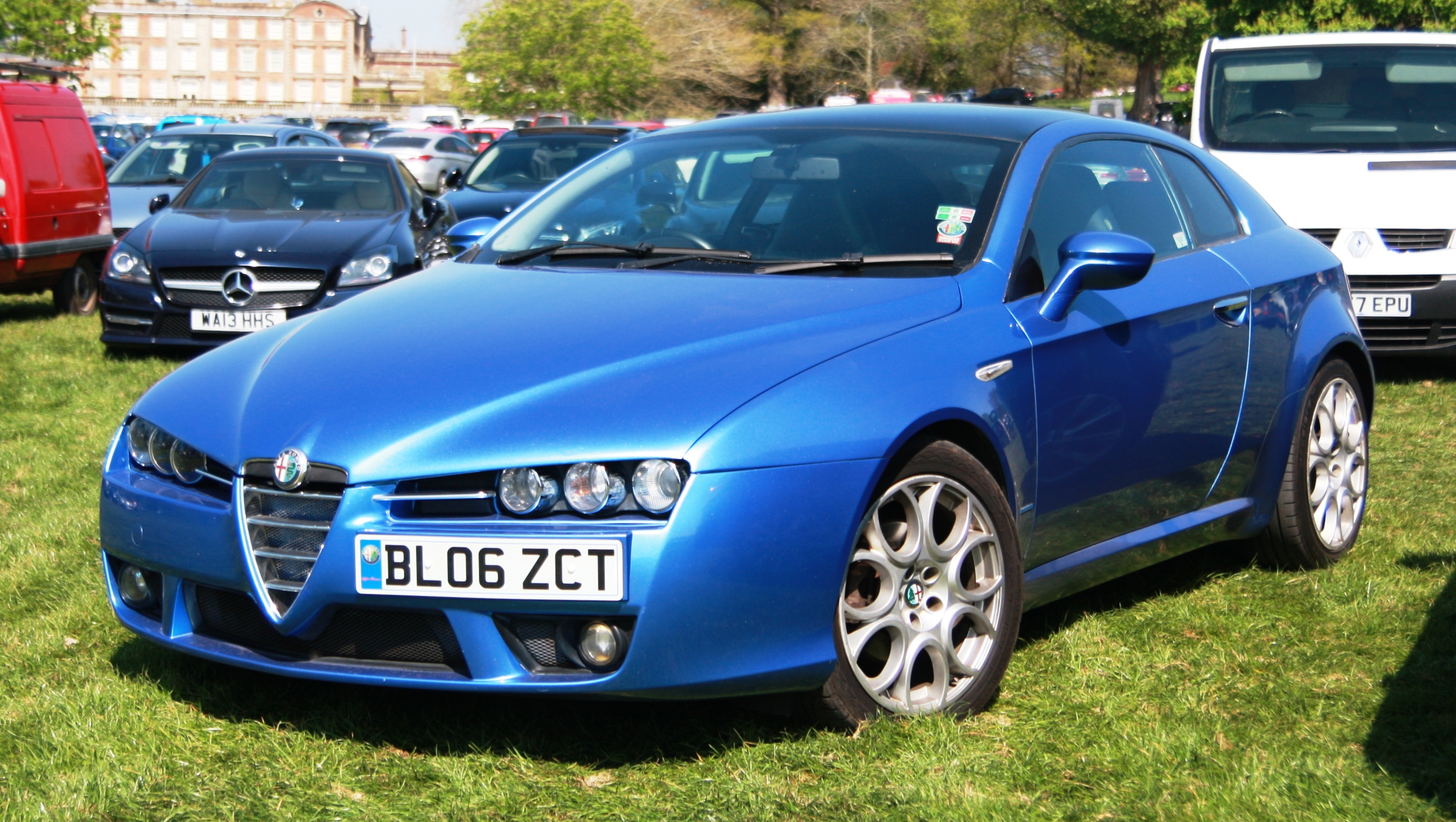 Alfa Romeo Brera 2198cc registered July 2006